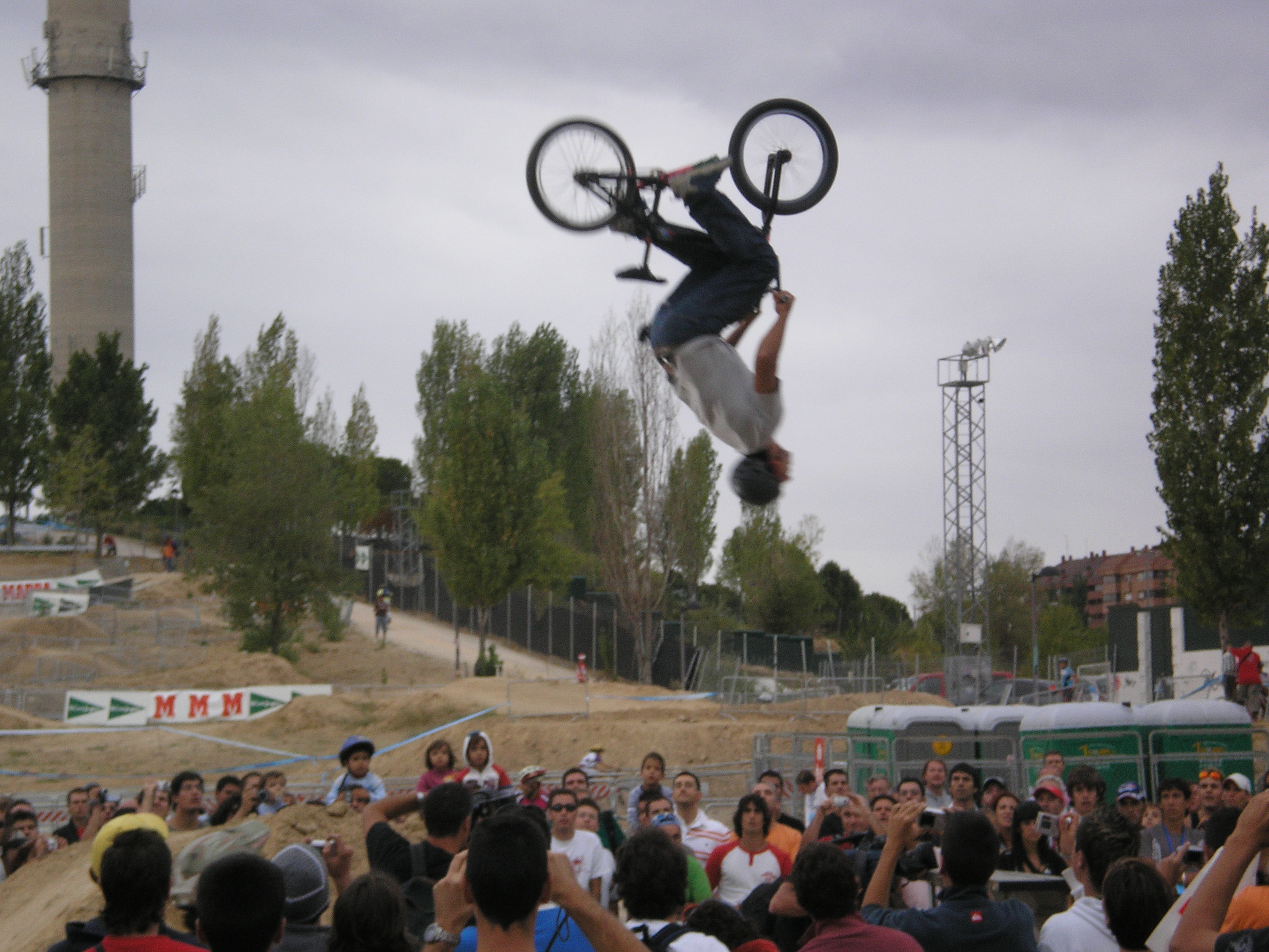 A biker making a backflip.